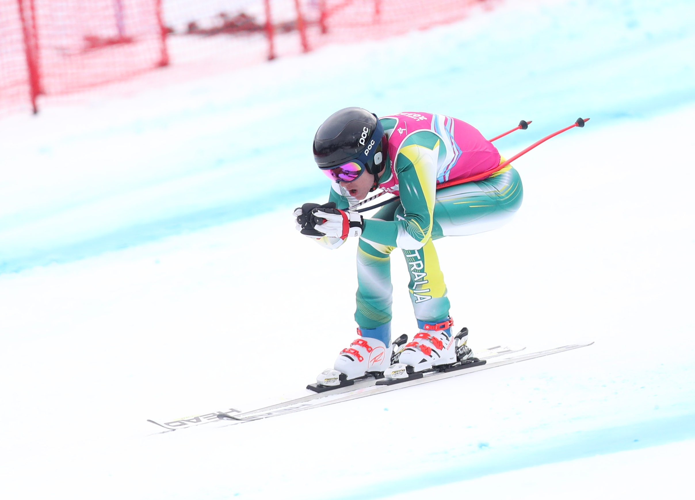 Men's Super G at the 2020 Winter Youth Olympics in Lausanne